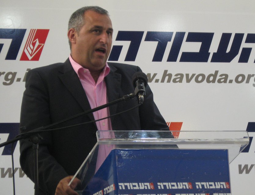 Yoram Marziano